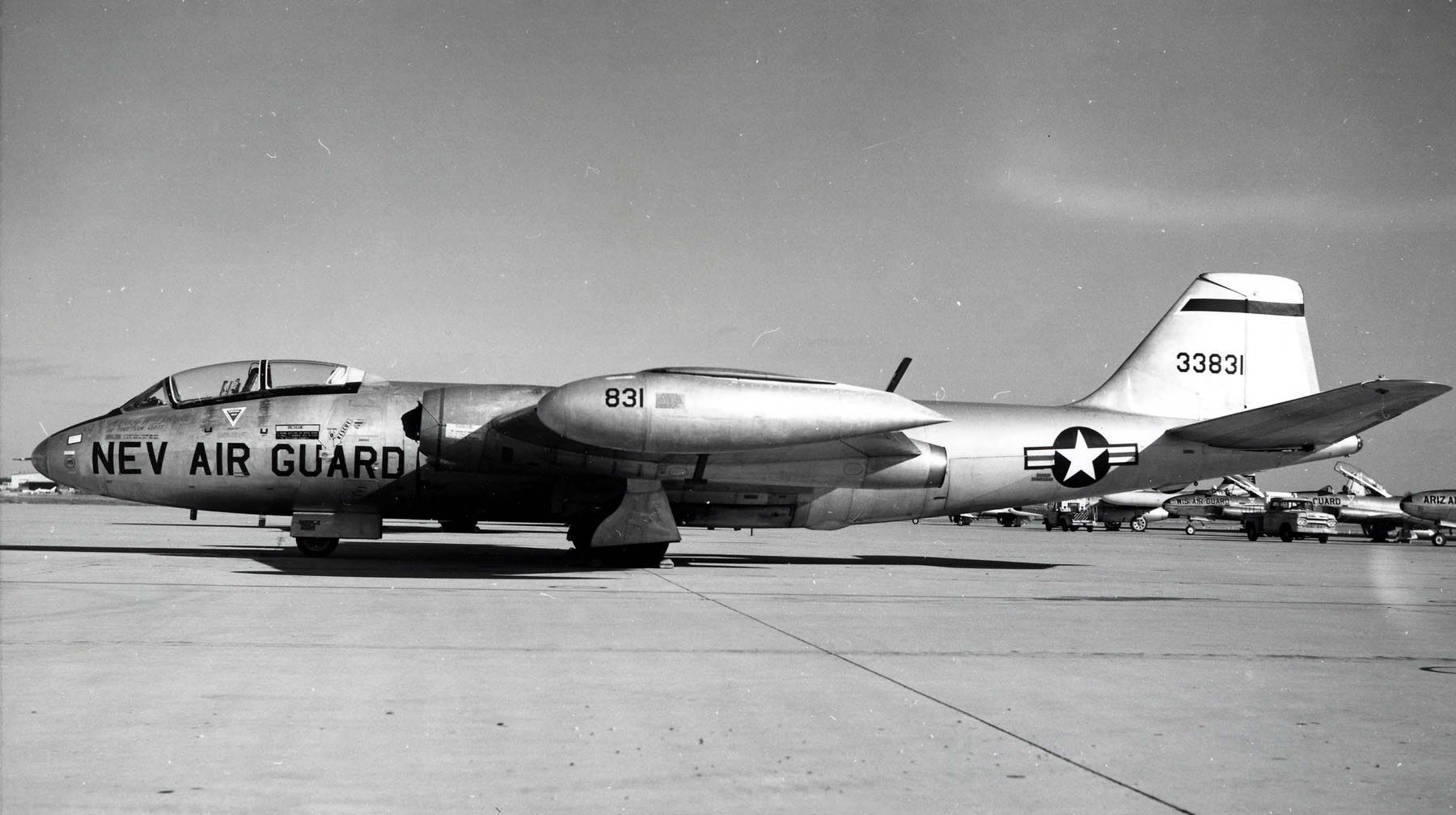 A U.S. Air Force Martin B-57C Canberra (S/N 53-3831) of the Nevada Air National Guard.